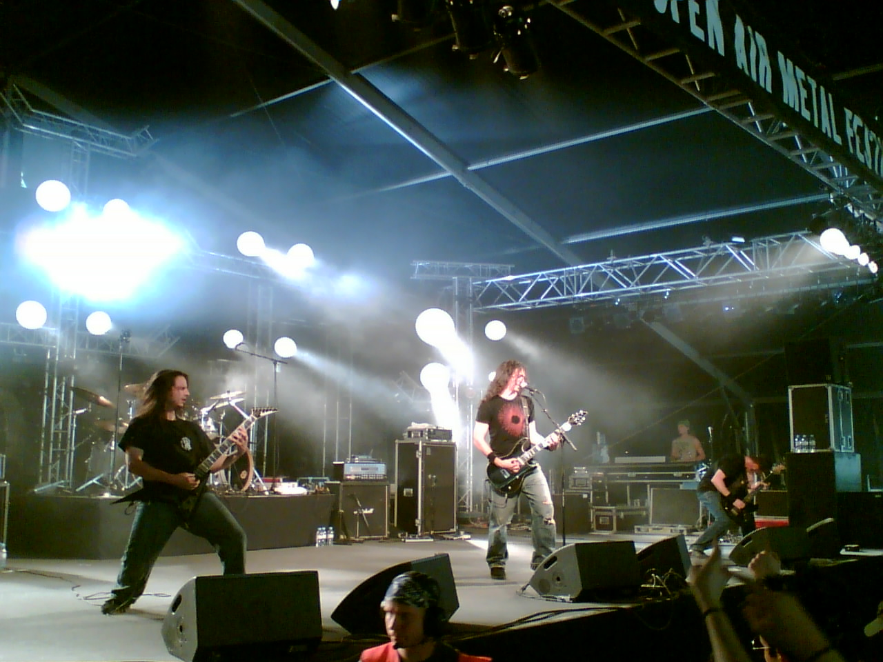 A French death metal band Gojira performing live at Finnish metal festival, Tuska 2nd of July 2006.